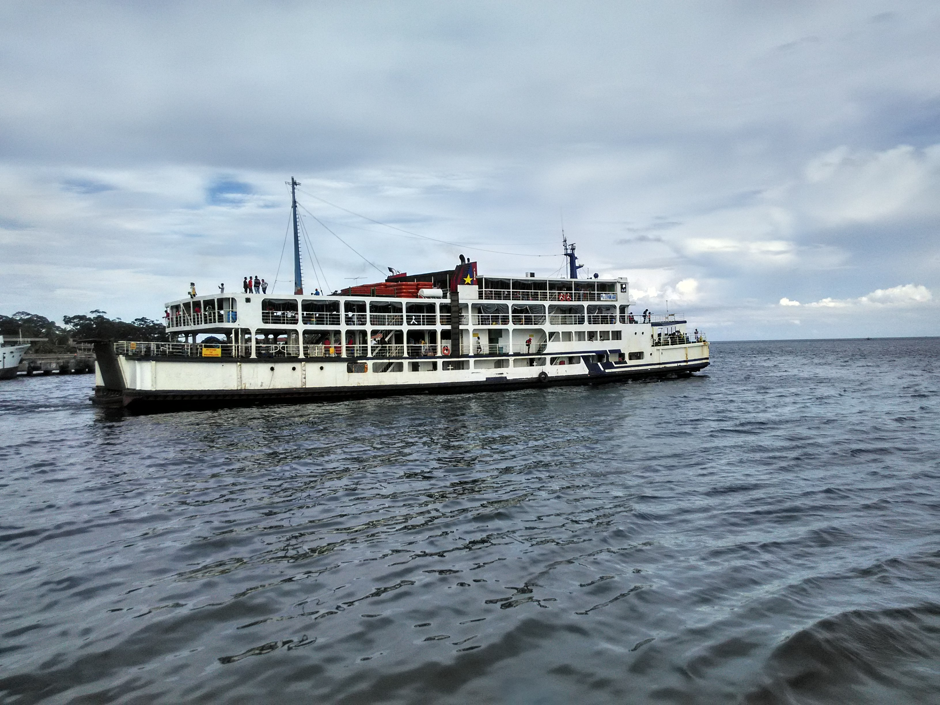 MV Stephanie Marie 1, loading passengers at the Zamboanga International Seaport. Filipino Ship Enthusiast Coalition